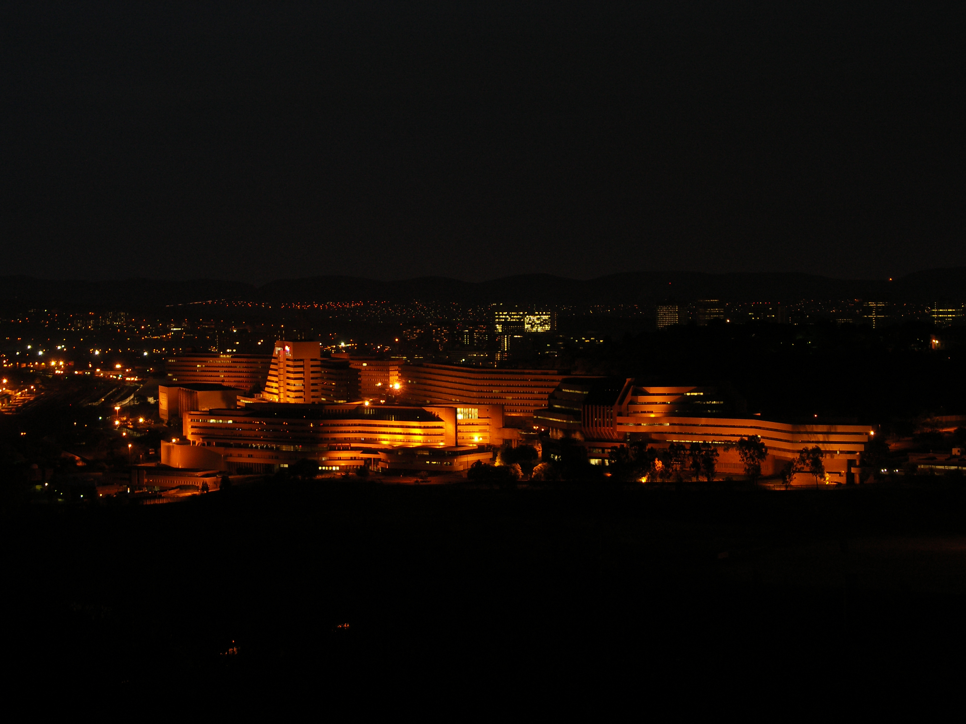 University of South Africa, Pretoria, Gauteng, South Africa. Photo taken from Klapperkop.